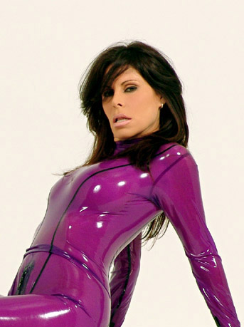 Ashley Renee A picture of me to illustrate my wiki page in purple latex catsuit & heels